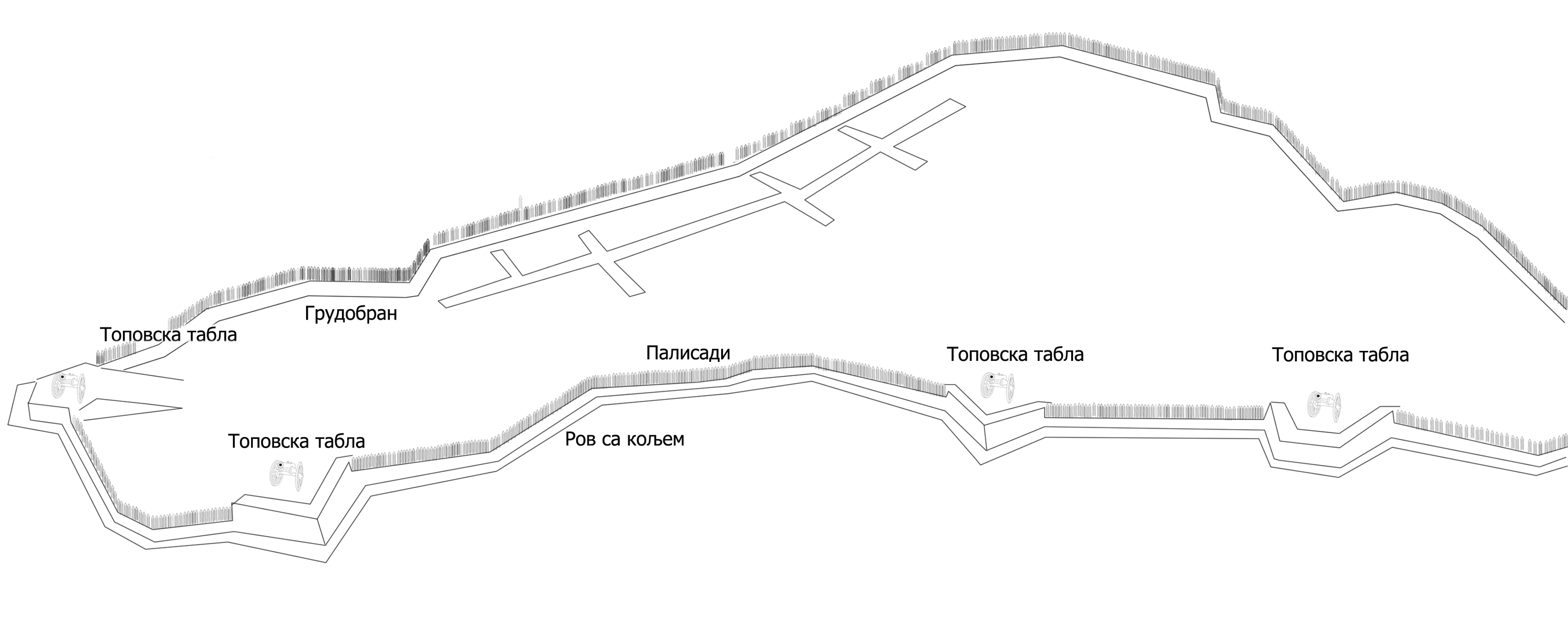 The triangular redoubt of Ilija Barjaktarevic at Deligrad used by Serbian rebel army of Karadjordje Petrovic during battle od Deligrad in 1806